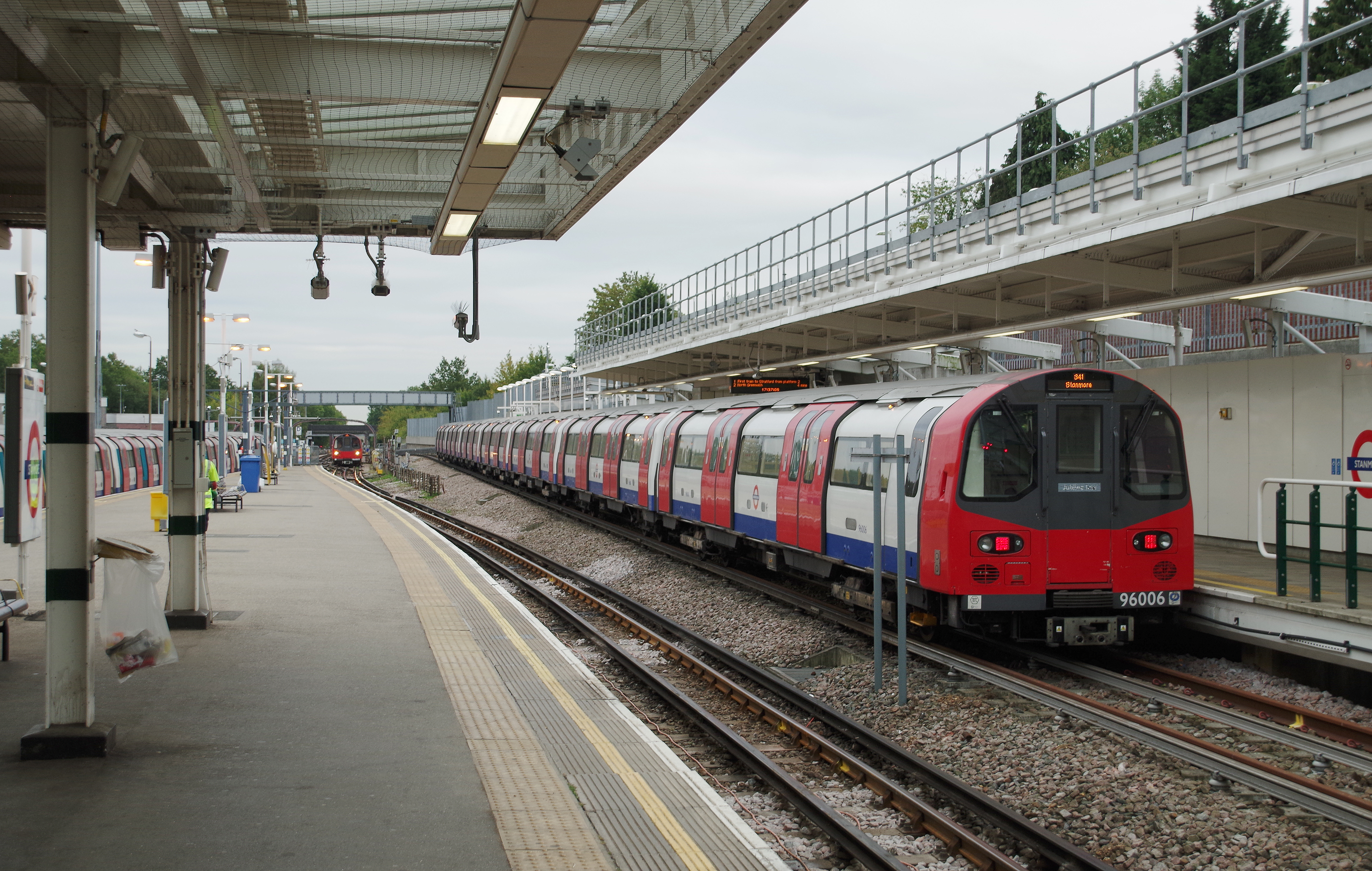 A Jubilee Line 1996 Stock train stand at Stanmore tube station.